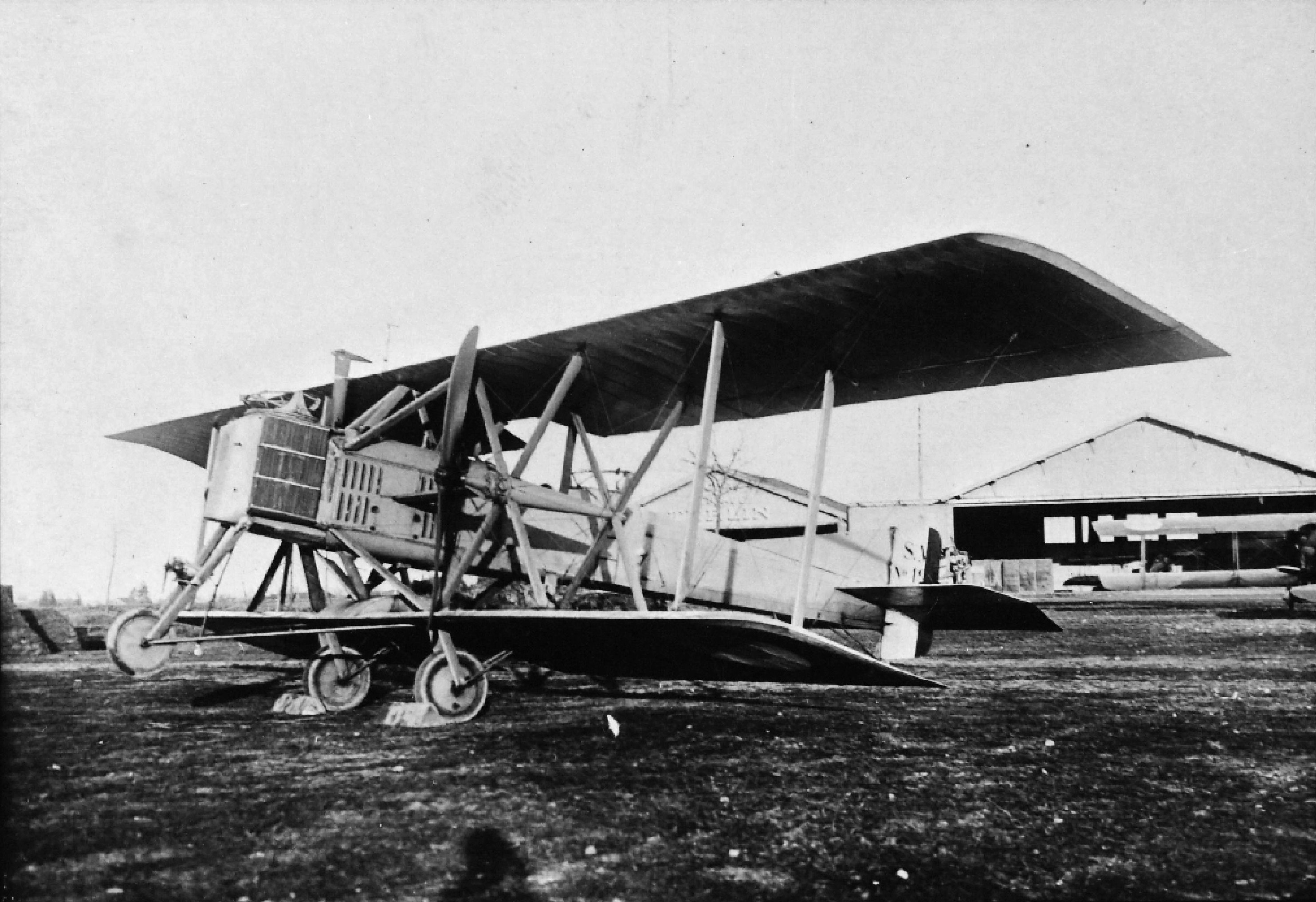 Airplane of french engineering company Salmson (1916-1917). It might be the Salmson-Moineau